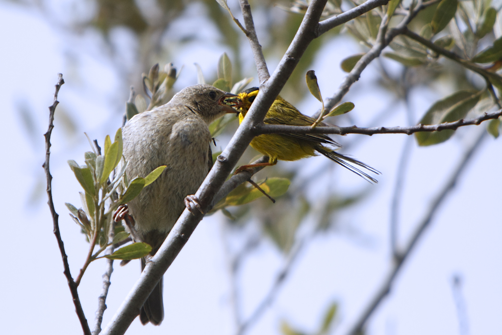 An adult male Pacific Wilson's Warbler Wilsonia pusilla feeding a fledgling Brown-headed Cowbird Molothrus ater.